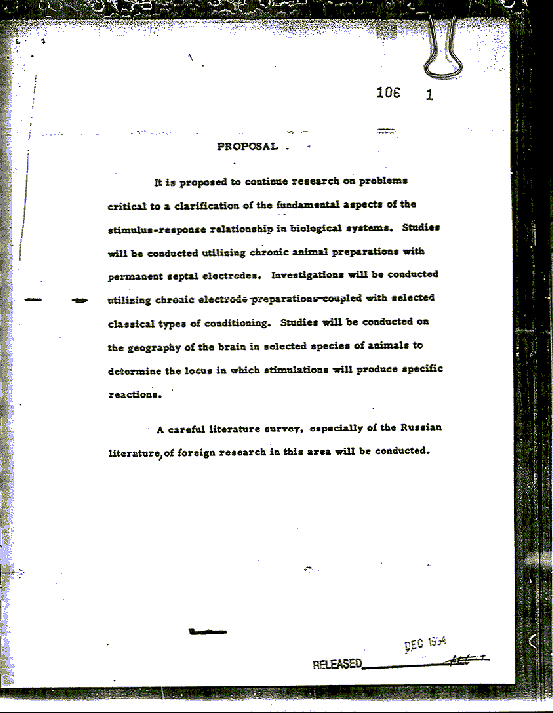 This a page from the declassified documents of MKULTRA. The documents were "provided by the Central Intelligence Agency under a subsequent Freedom of Information Act request in 1995."